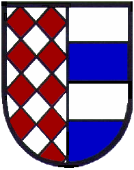 Coat of arms of the municipality Löptin in Schleswig-Holstein, Germany.